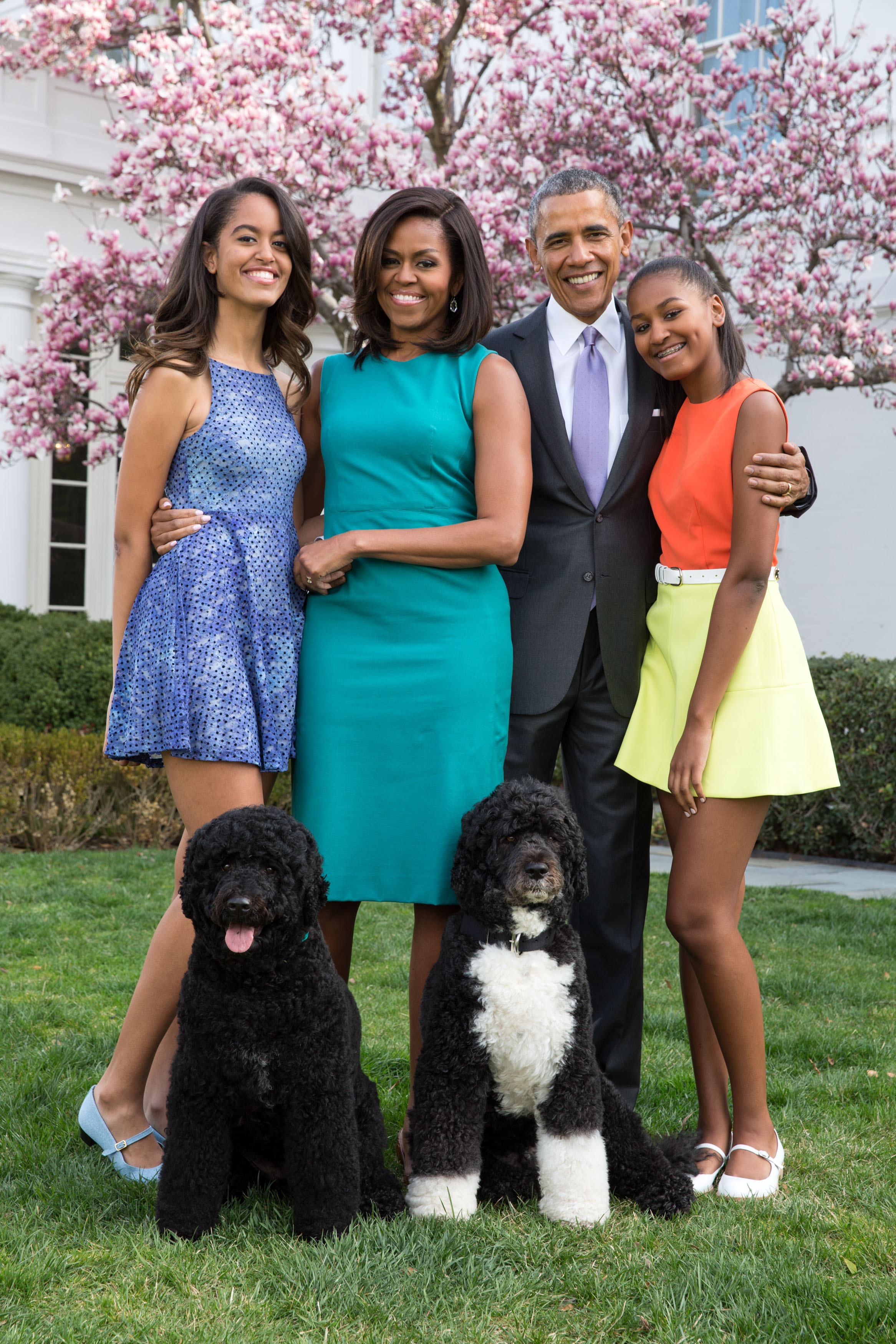 President Barack Obama, First Lady Michelle Obama, and daughters Malia and Sasha pose for a family portrait with Bo and Sunny in the Rose Garden of the White House on Easter Sunday, April 5, 2015. (Official White House Photo by Pete Souza)